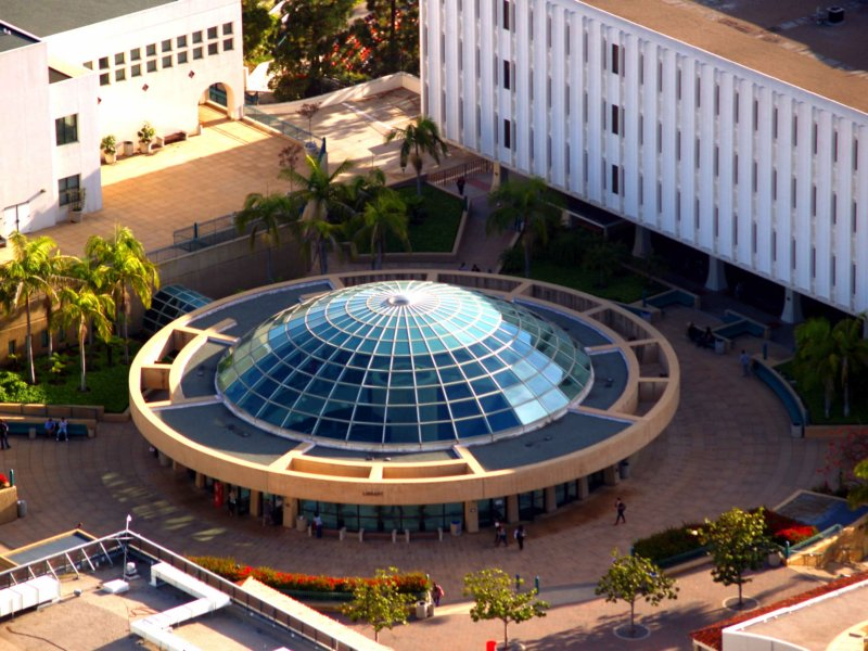 Aerial view of the Malcolm Love Library at San Diego State University Please acknowledge "Phil Konstantin" as the creator of this photograph.